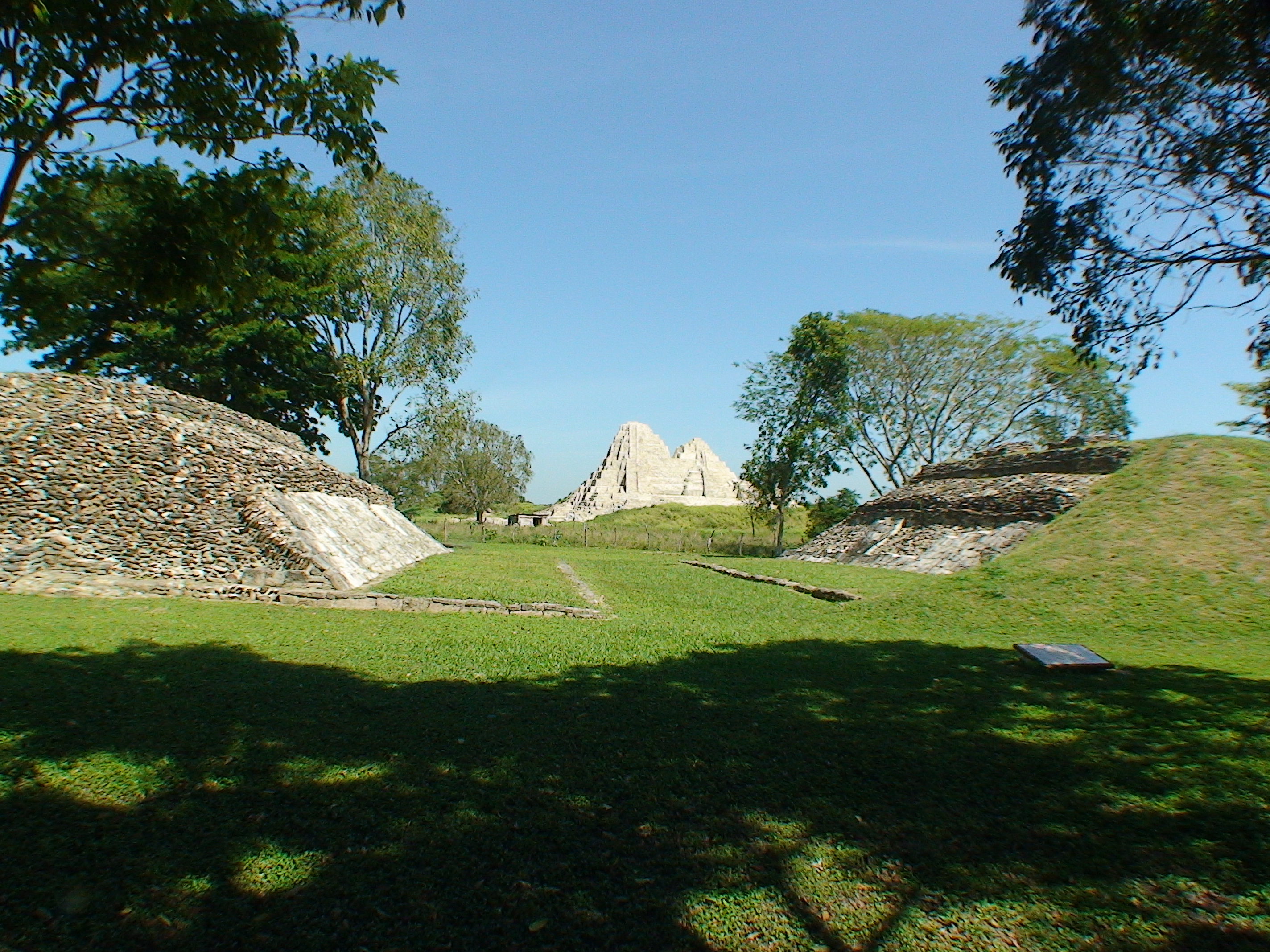 La Reforma, Tabasco, Mexico: Group 1, ball court